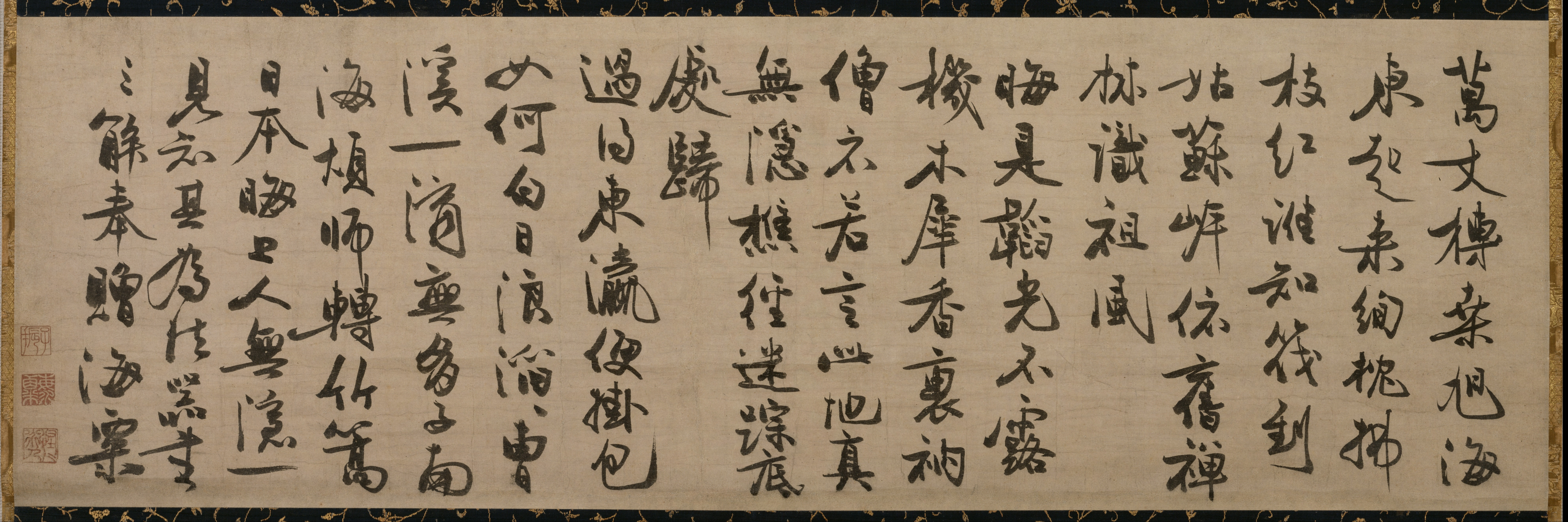 Poems dedicated to Muin Genkai (与無隠元晦詩, Muin Genkai ni ataerushi). Three poems with seven characters per line dedicated to the Japanese monk Muin Genkai. One hanging scroll, ink on paper, 32.7 × 102 cm (12.9 × 40 in). Located at the Tokyo National Museum, Tokyo.